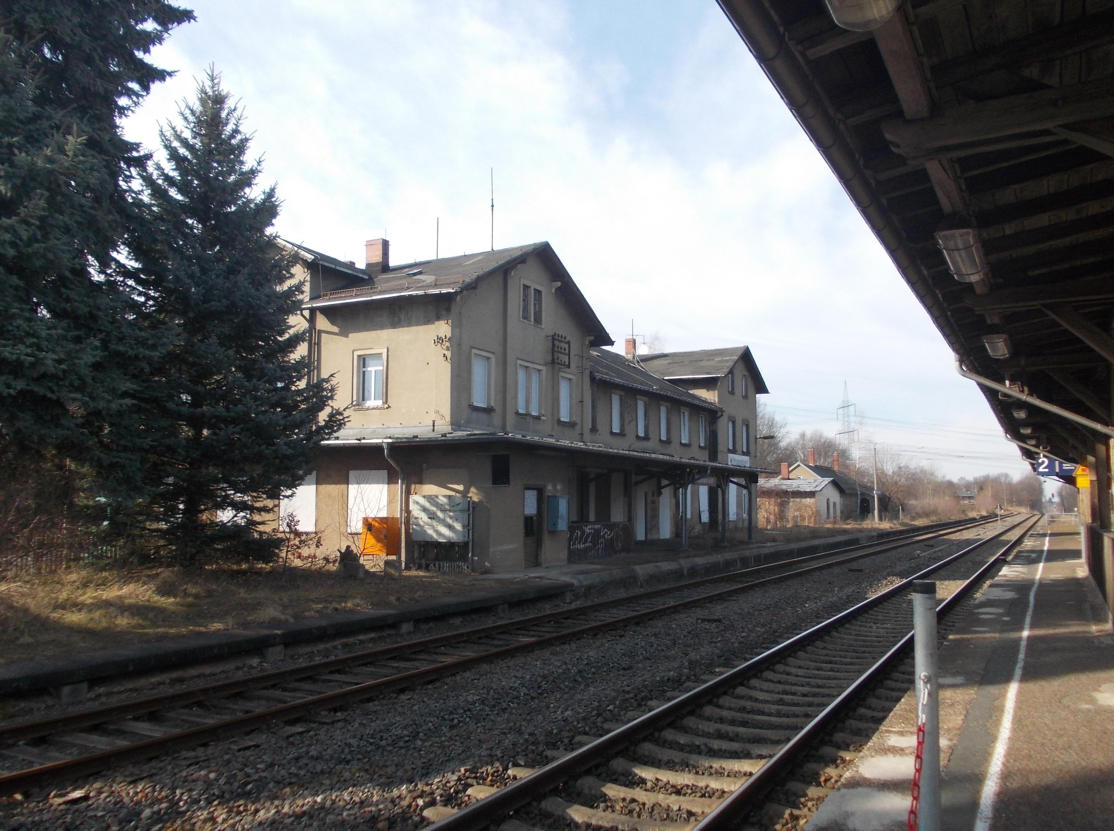 The upper train station of Wittgensdorf (Chemnitz, Saxony)